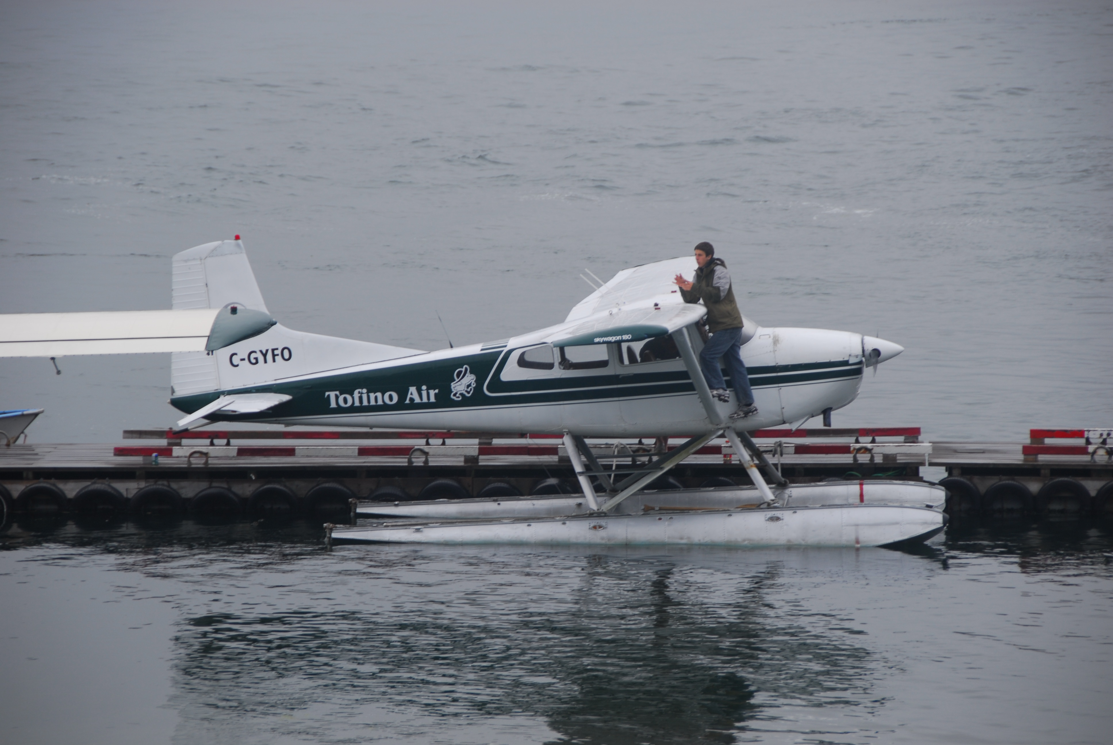 Tofino Air Cessna 180J Skywagon 180 C-GYFO at Tofino Harbour Water Aerodrome